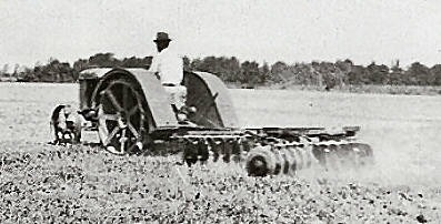 Photo of Fordson tractor discing ground on John Phillips' farm in Princess Anne County, VA.